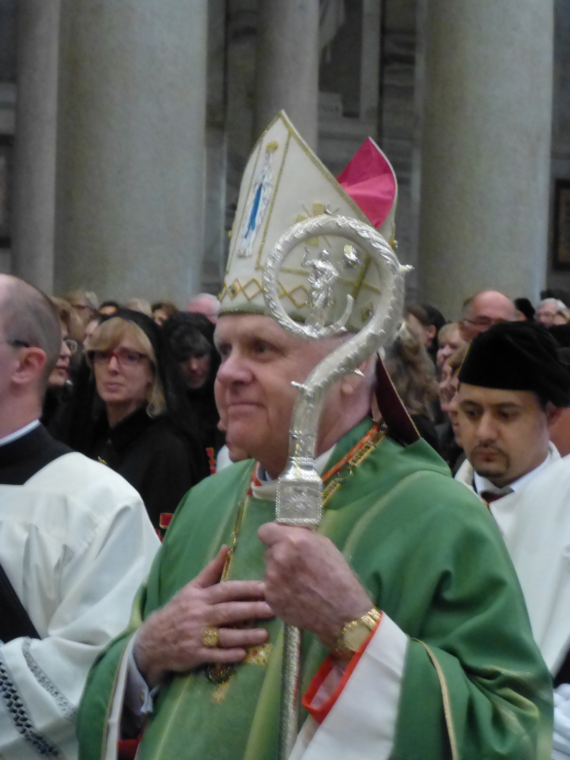 Edwin Frederick O'Brien, Cardinal-Grand Master of the Equestrian Order of the Holy Sepulchre of Jerusalem at Holy Mass in the Basilica of Saint Paul Outside the Walls